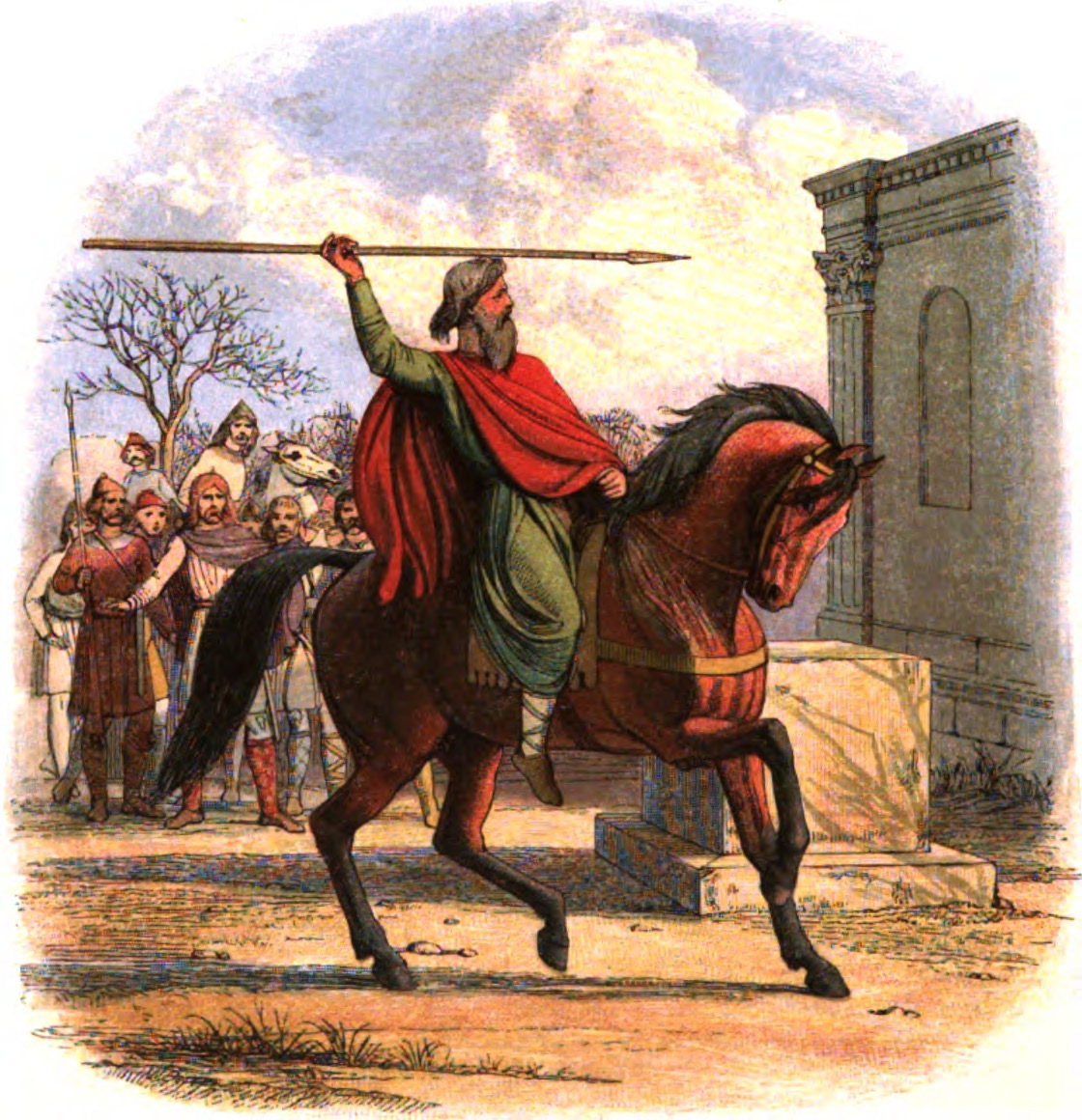 The high priest Coifi profanes the temples of the idols.